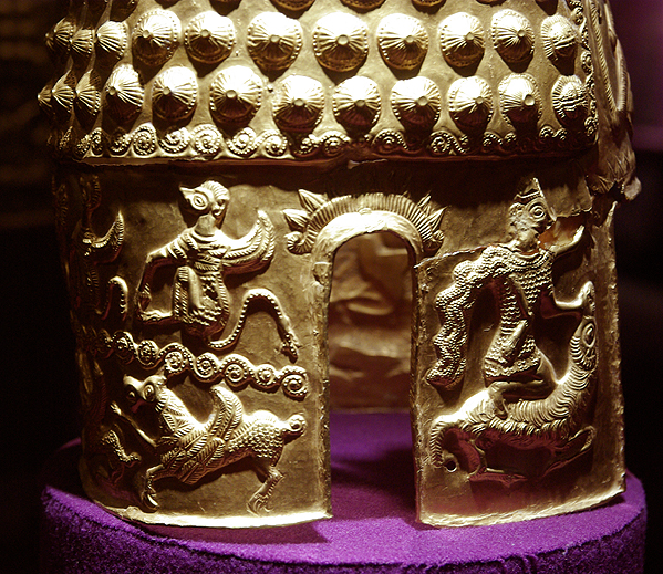 A Geto-Dacian helmet dating from the first half of the 4th century BC, uncovered by chance. Mythological scene on the side.